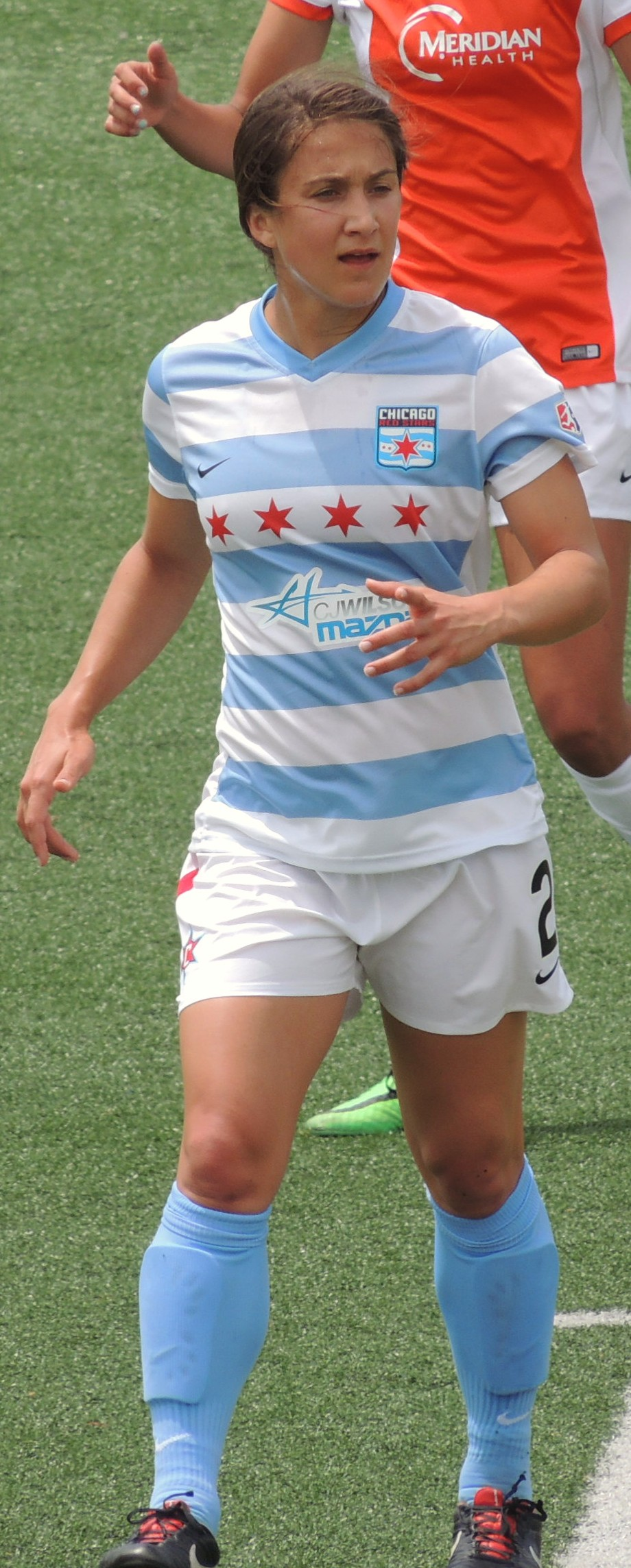 June 15, 2014 Jennifer Hoy